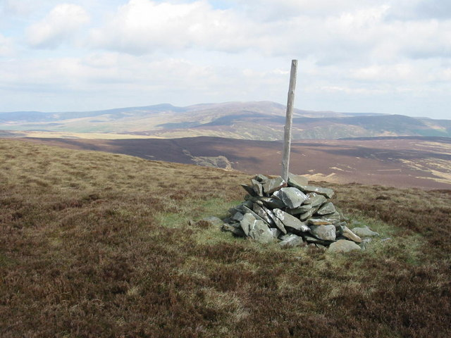 Cyrniau Nod, 4 km from Pennant Melangell, Powys, Wales. The summit cairn, Y Berwyn in the distance.